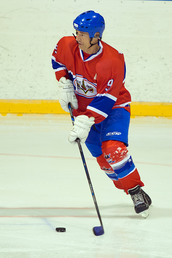 Tonny Collard the most succesfull hockeyplayer from the Netherlands in the 70s and 80s with a comprehensive international hockey carreer.